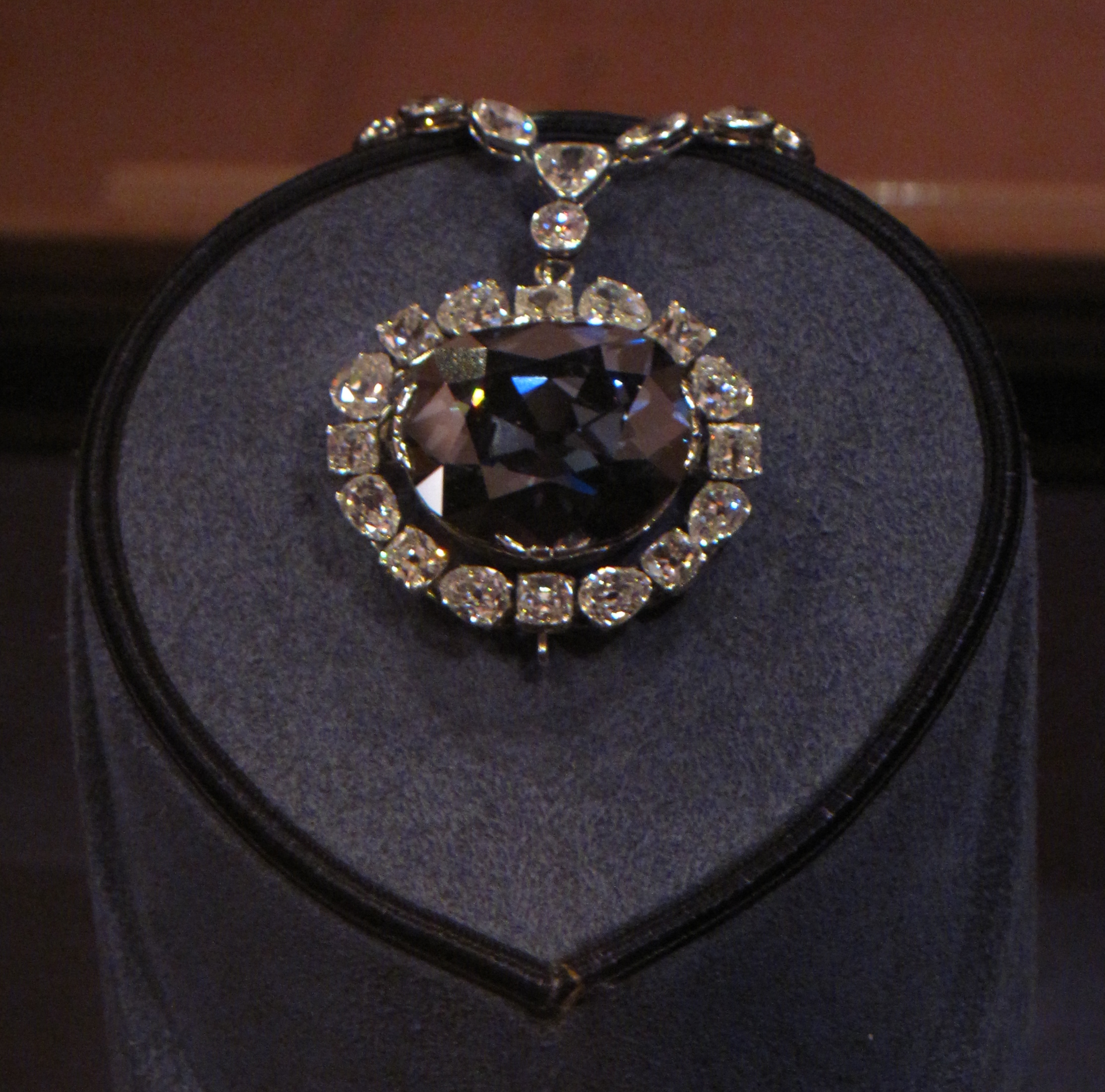 Hope Diamond